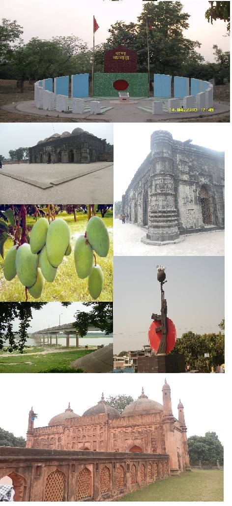 contains the most interesting landmarks of this place